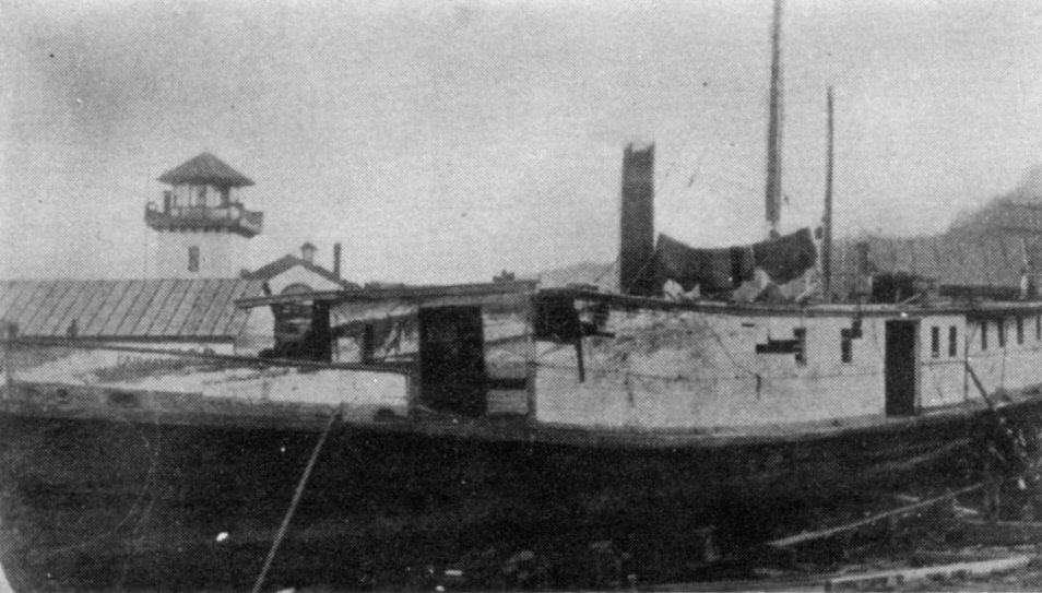 Hulk of Fairhaven hauled out in West Seattle following fire in 1918. Lookout tower of first clubhouse of the Seattle Yacht Club is visible at left. Location is possibly King and Winge shipyard.